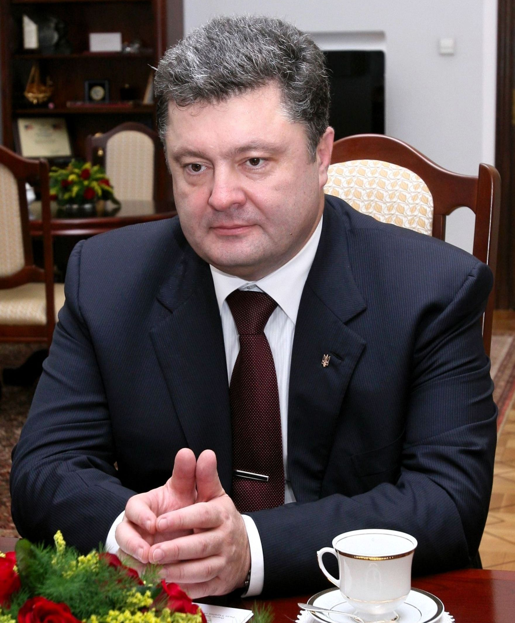 Minister for Foreign Affairs of Ukraine Petro Poroshenko in the Polish Senate